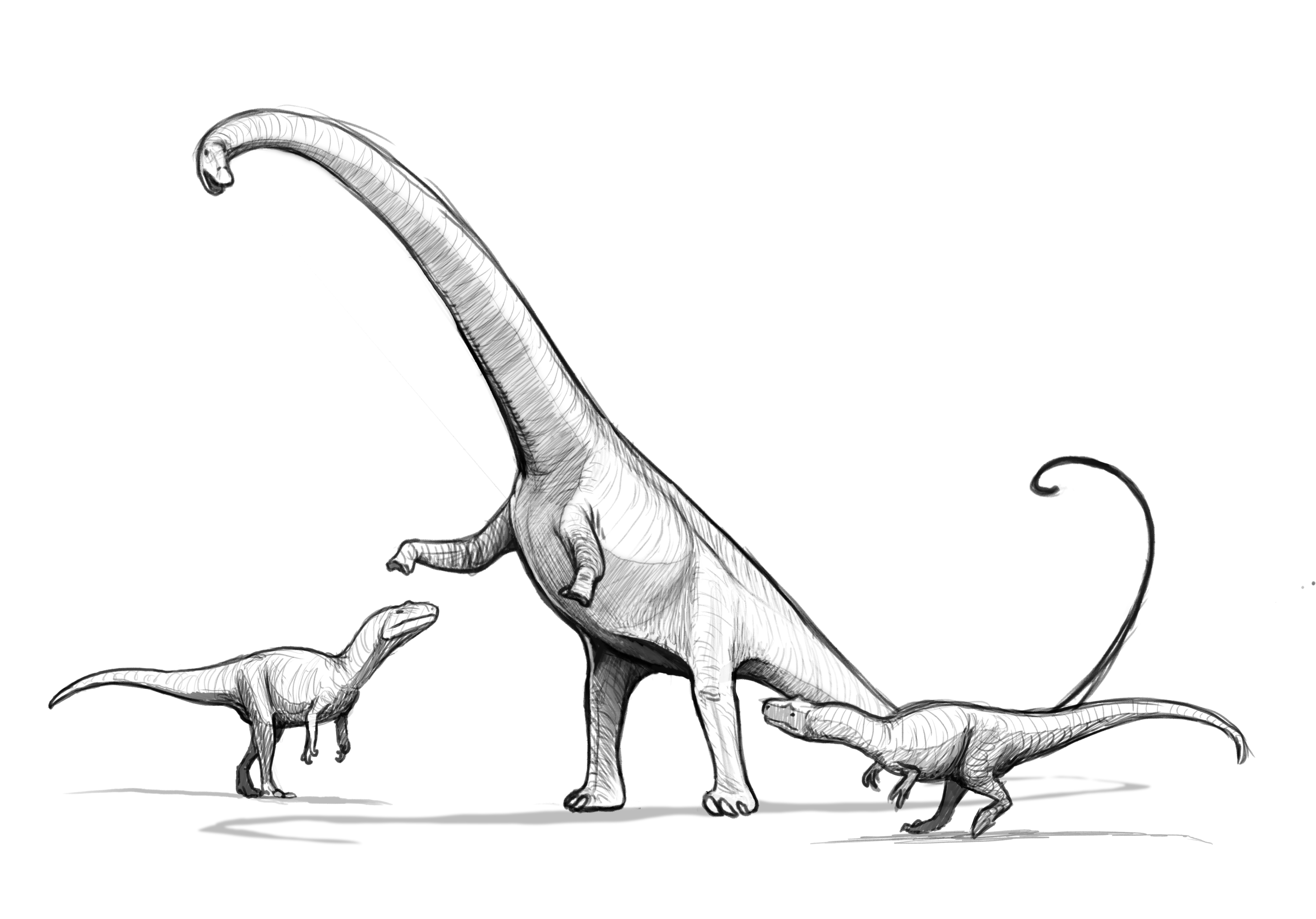 Scientific Reconstruction of Barosaurus lentus